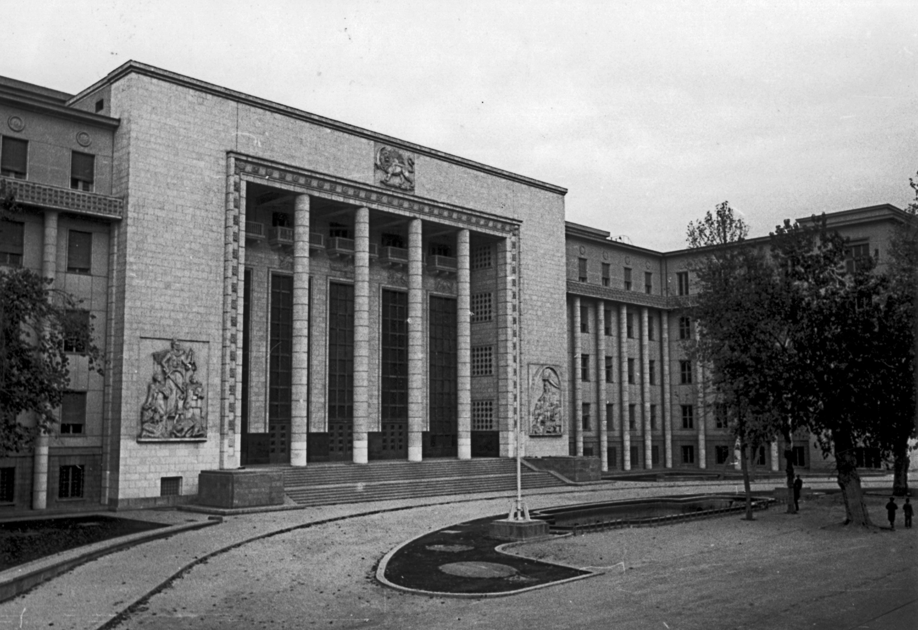 Justice Palace in Tehran. The Front Gate from south-east. Architectural and Engineering design : Ing.Arch.S.Sůva Engineer's Office S.I.Skoda in Tehran